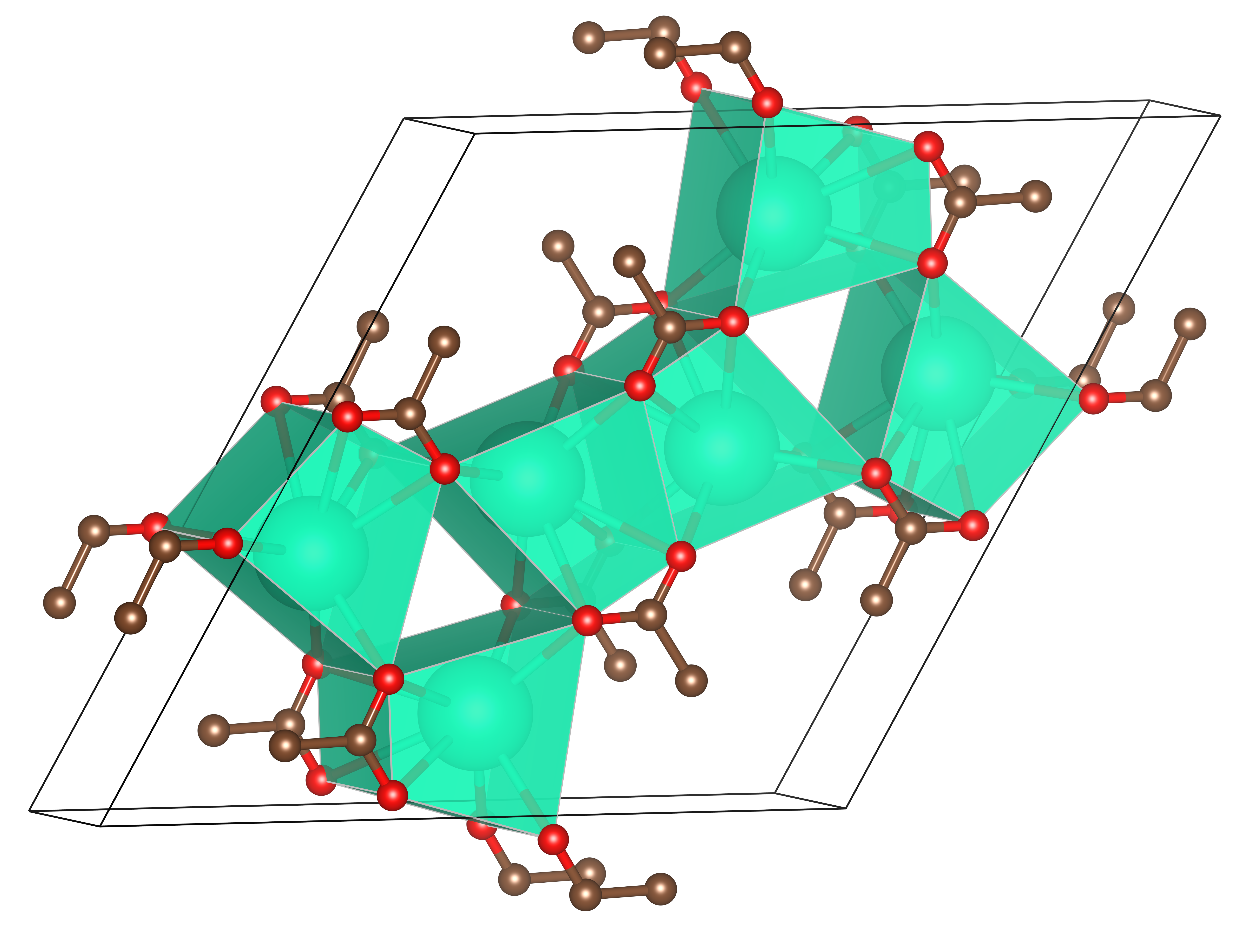 Unit cell of dry caesium acetate (CsOAc). Created with VESTA. Source of crystal structure